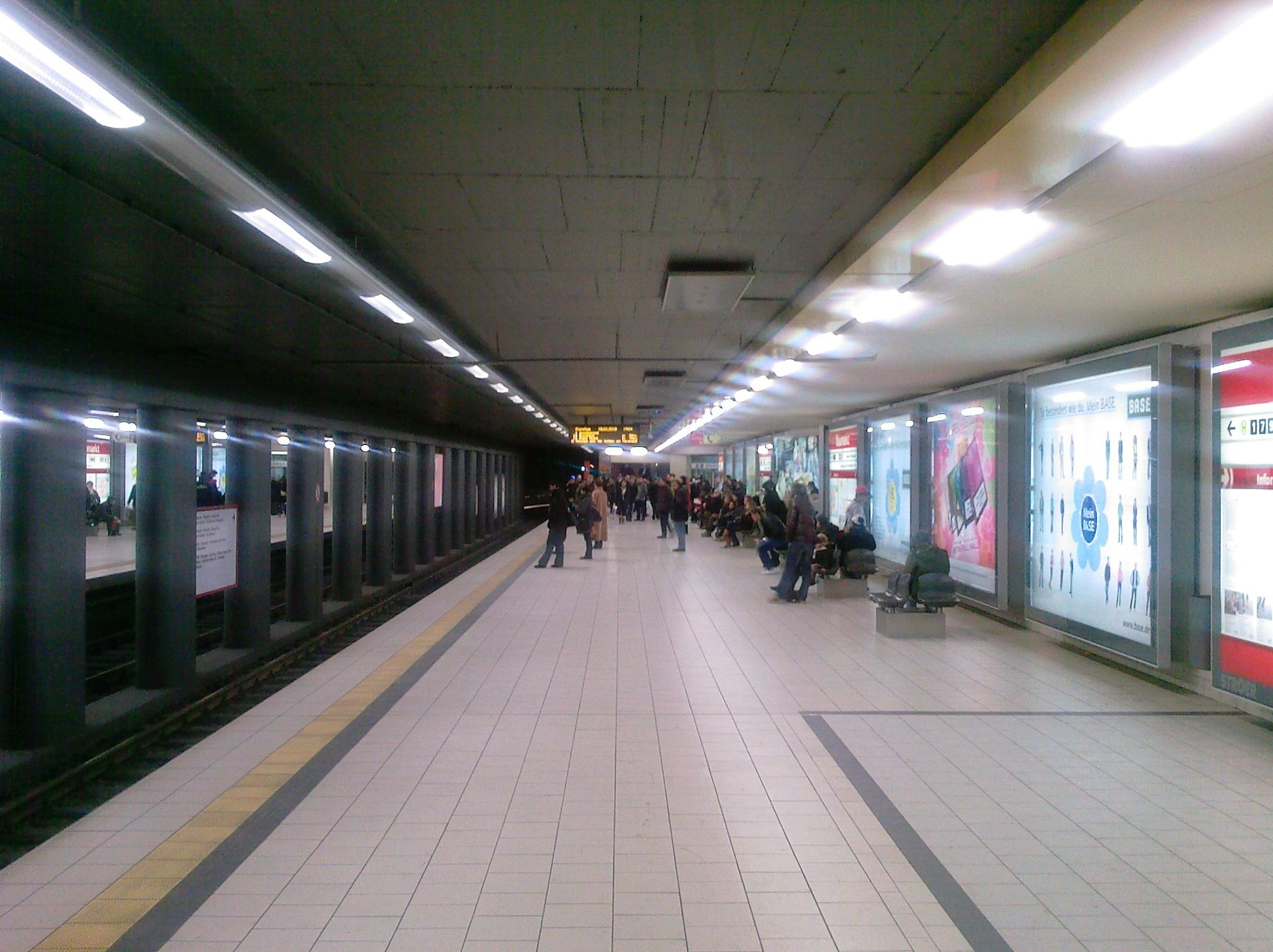 U-Bahnhof Neumarkt, Cologne, Germany